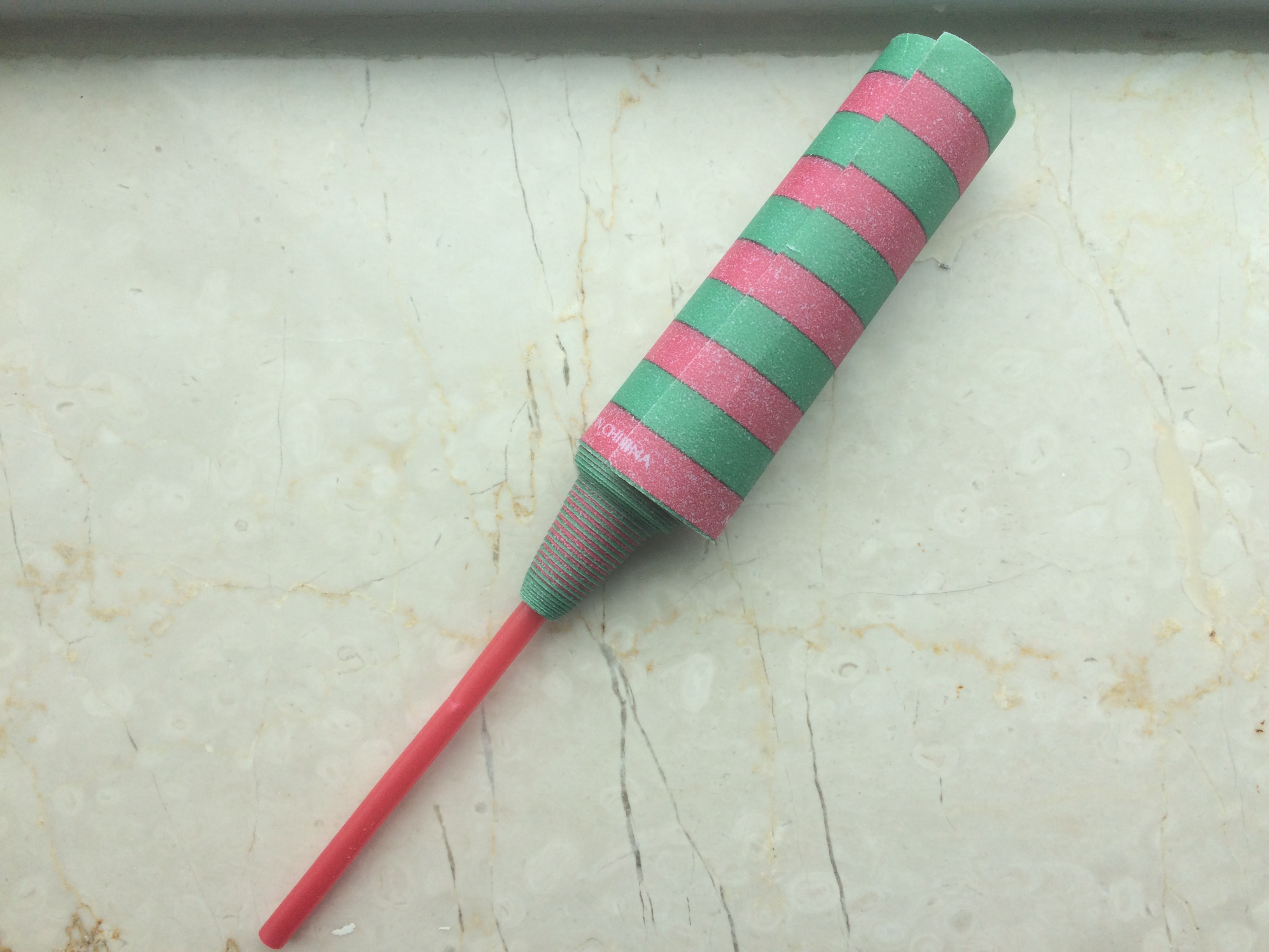 This is a photograph of a Paper Laser, alternatively known as a Paper Yoyo or sometimes Chinese Yoyo (though that term describes another dissimilar toy).